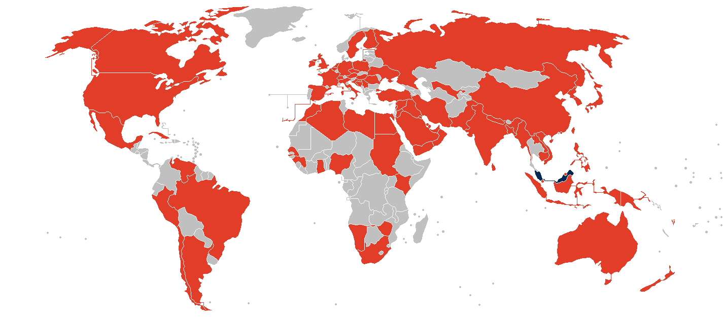 Diplomatic missions of Malaysia